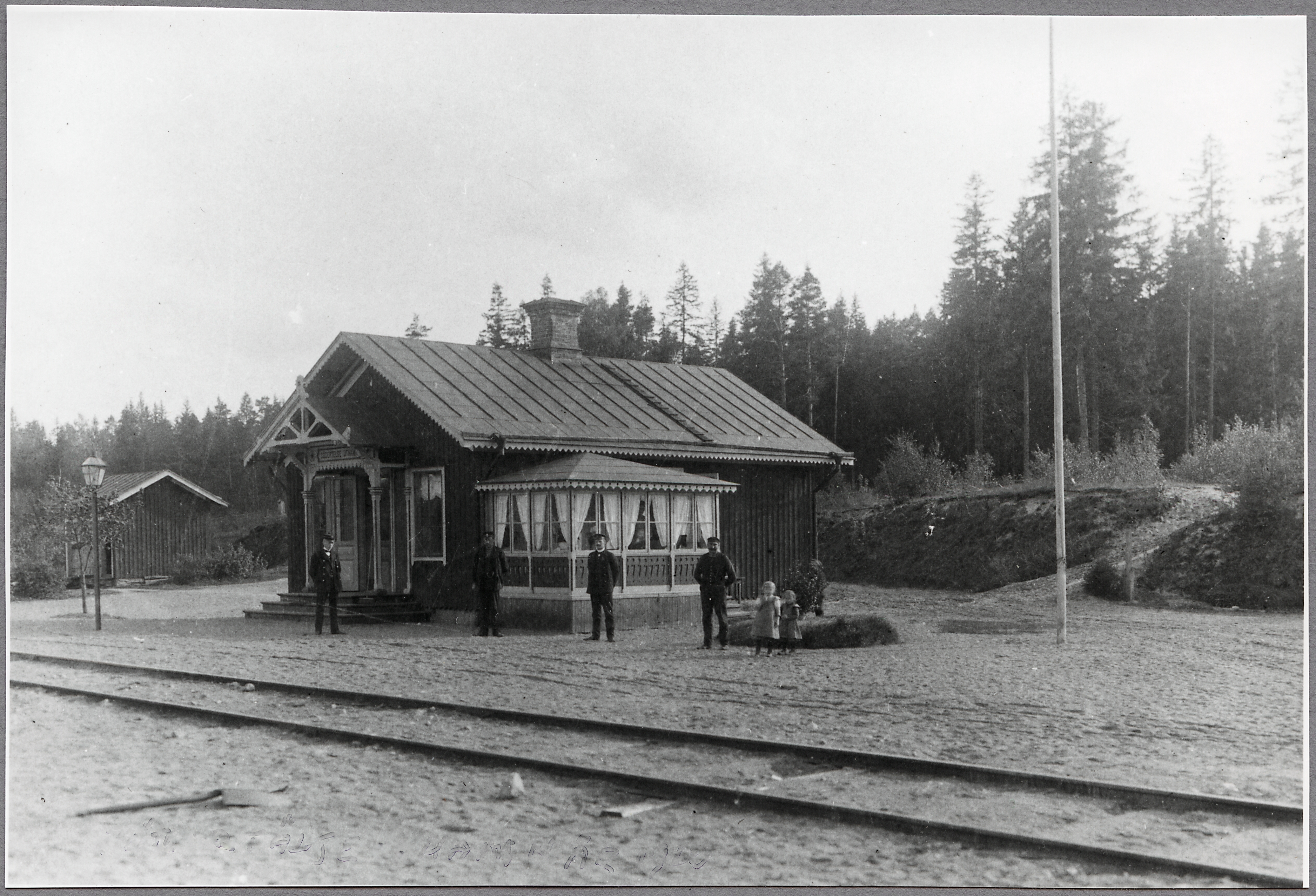 Södertelge uthamn station from a distance with tracks 1900. Södertälje, Sweden